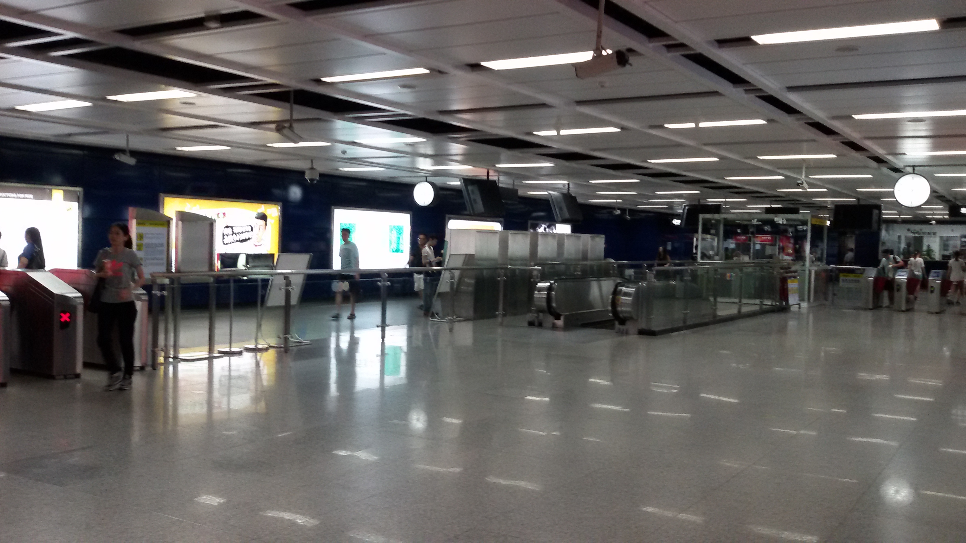 Station Concourse for Luoxi Station in Guangzhou Metro. 粵語: 廣州地鐵，洛溪站嘅站廳。